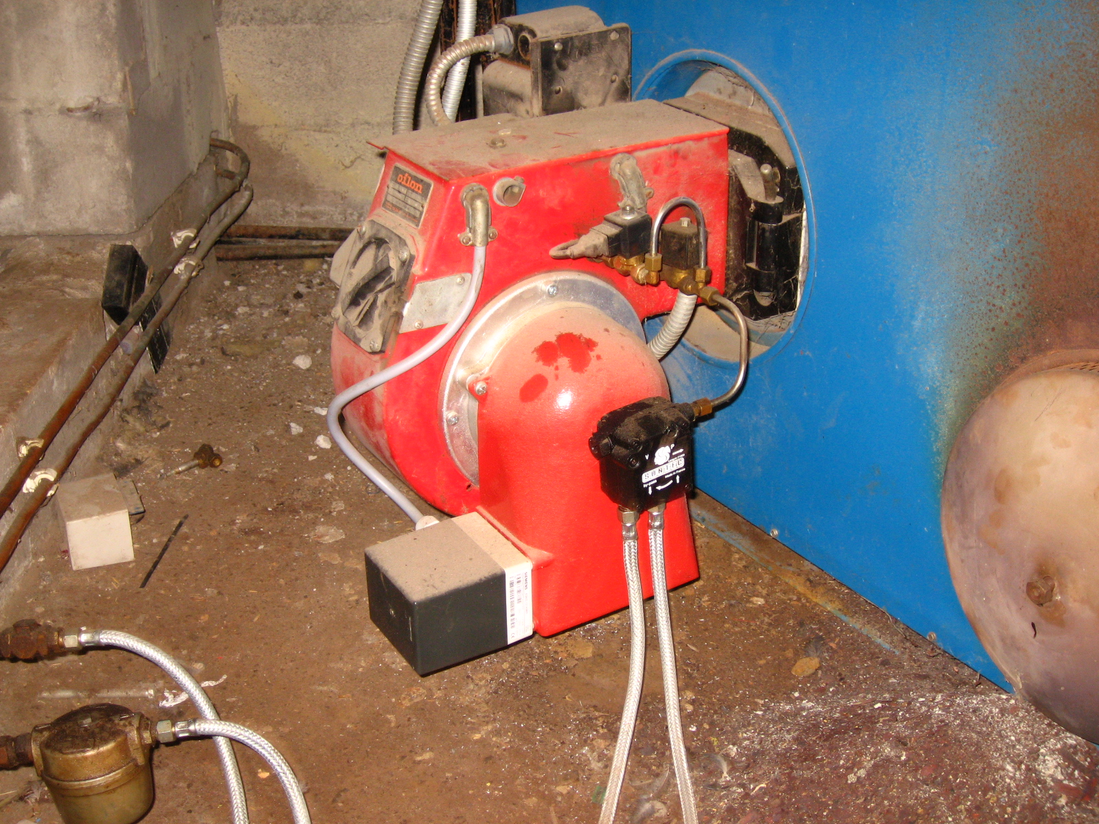 Typical oil burner